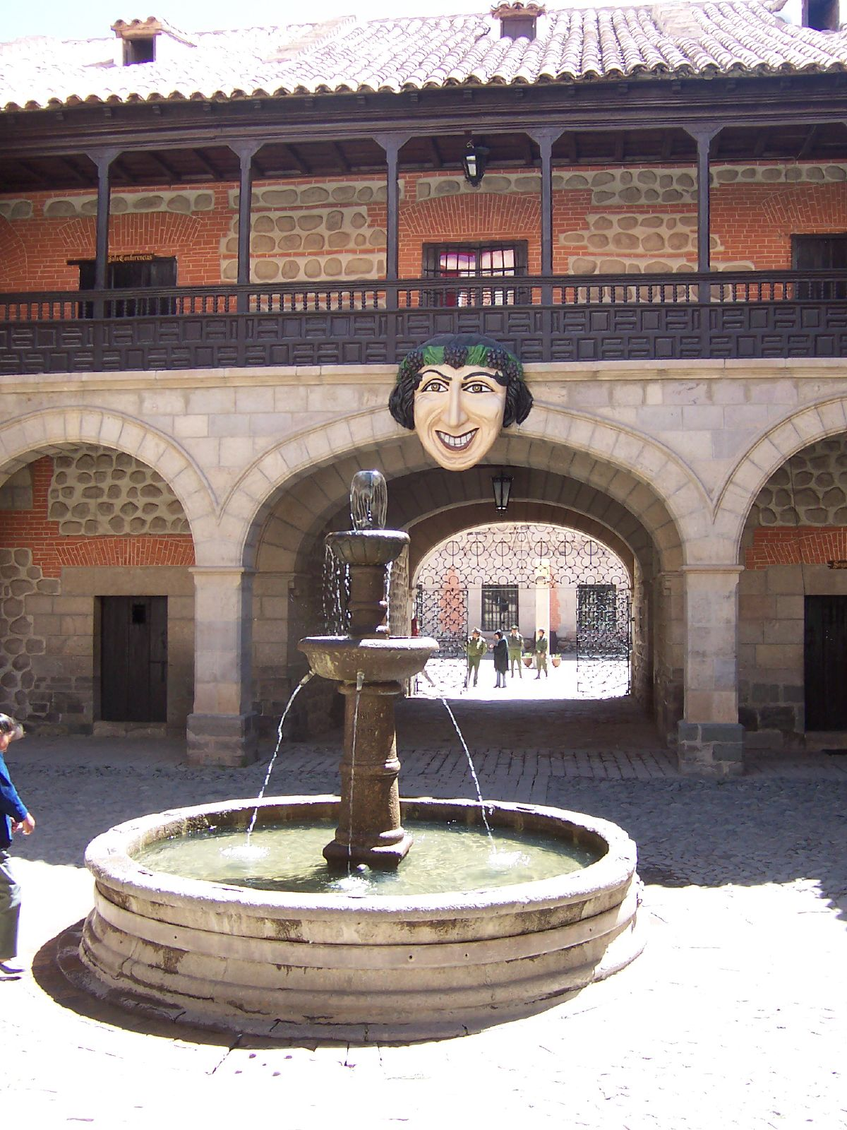 Square with fountain and arch with face, in Bolivia.100_2751